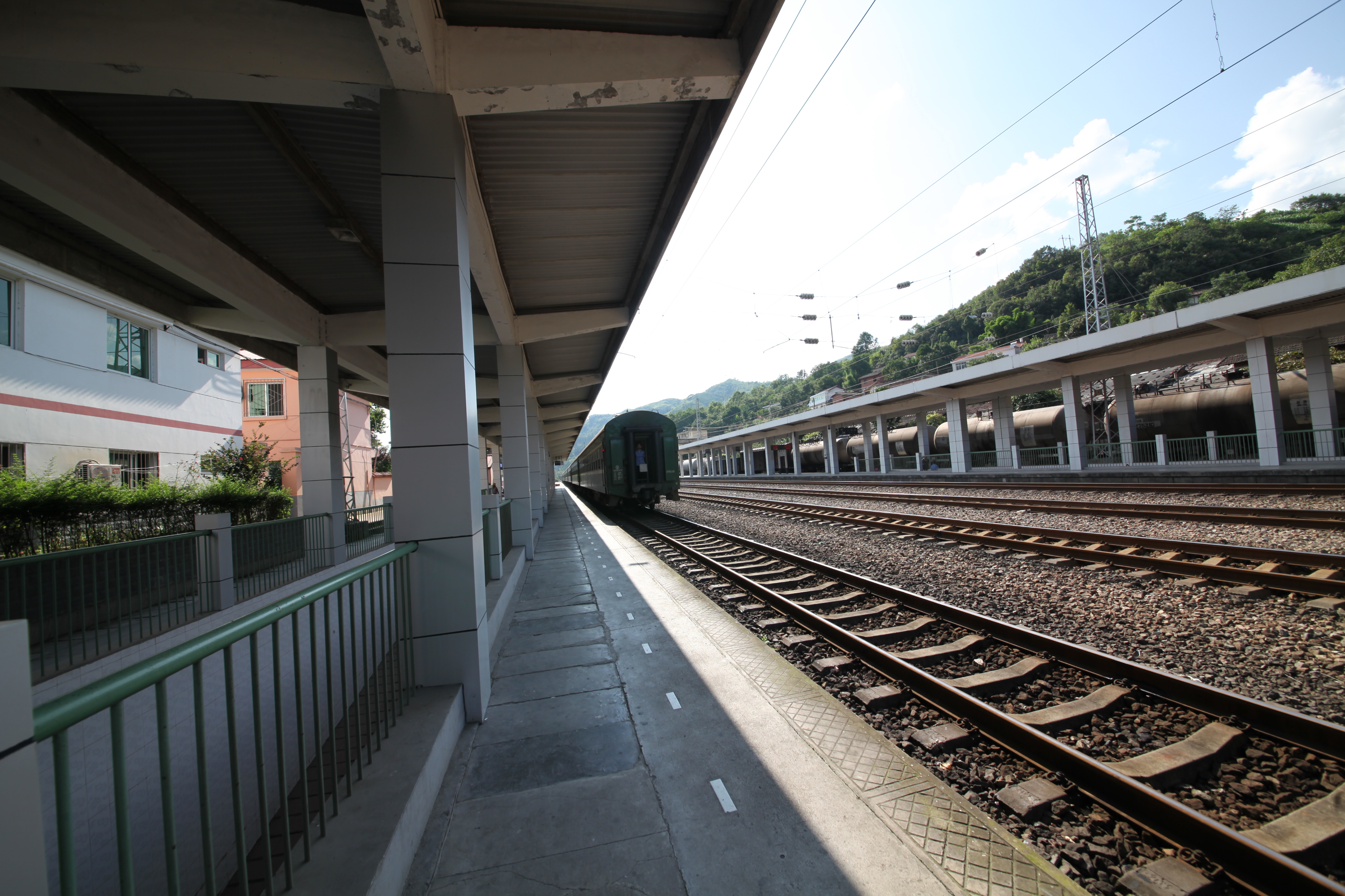 Yangpingguan Station Platform